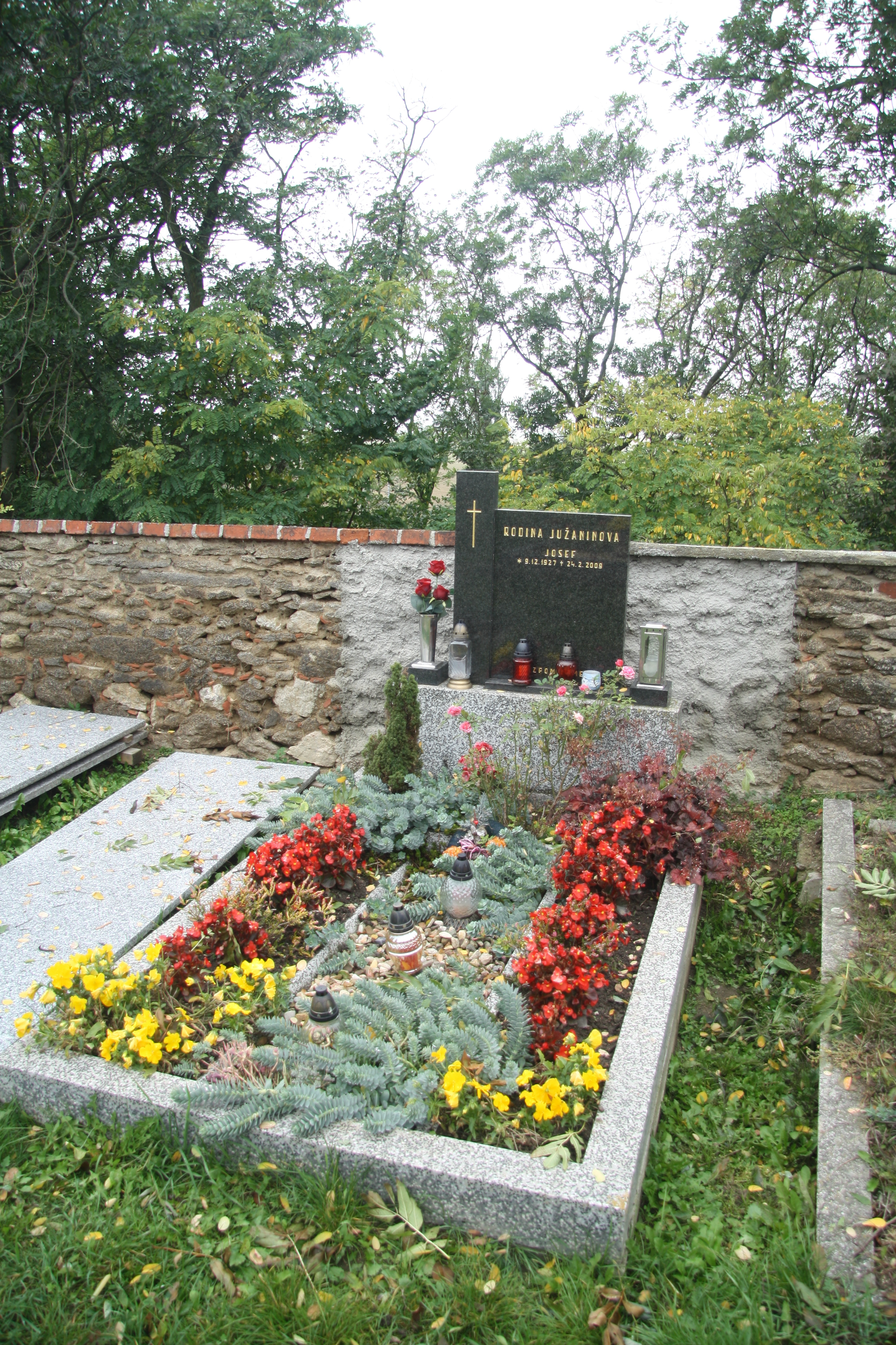 Grave of Josef Južanin at cemetery near Church of Saint Mark in Střítež, Třebíč District.